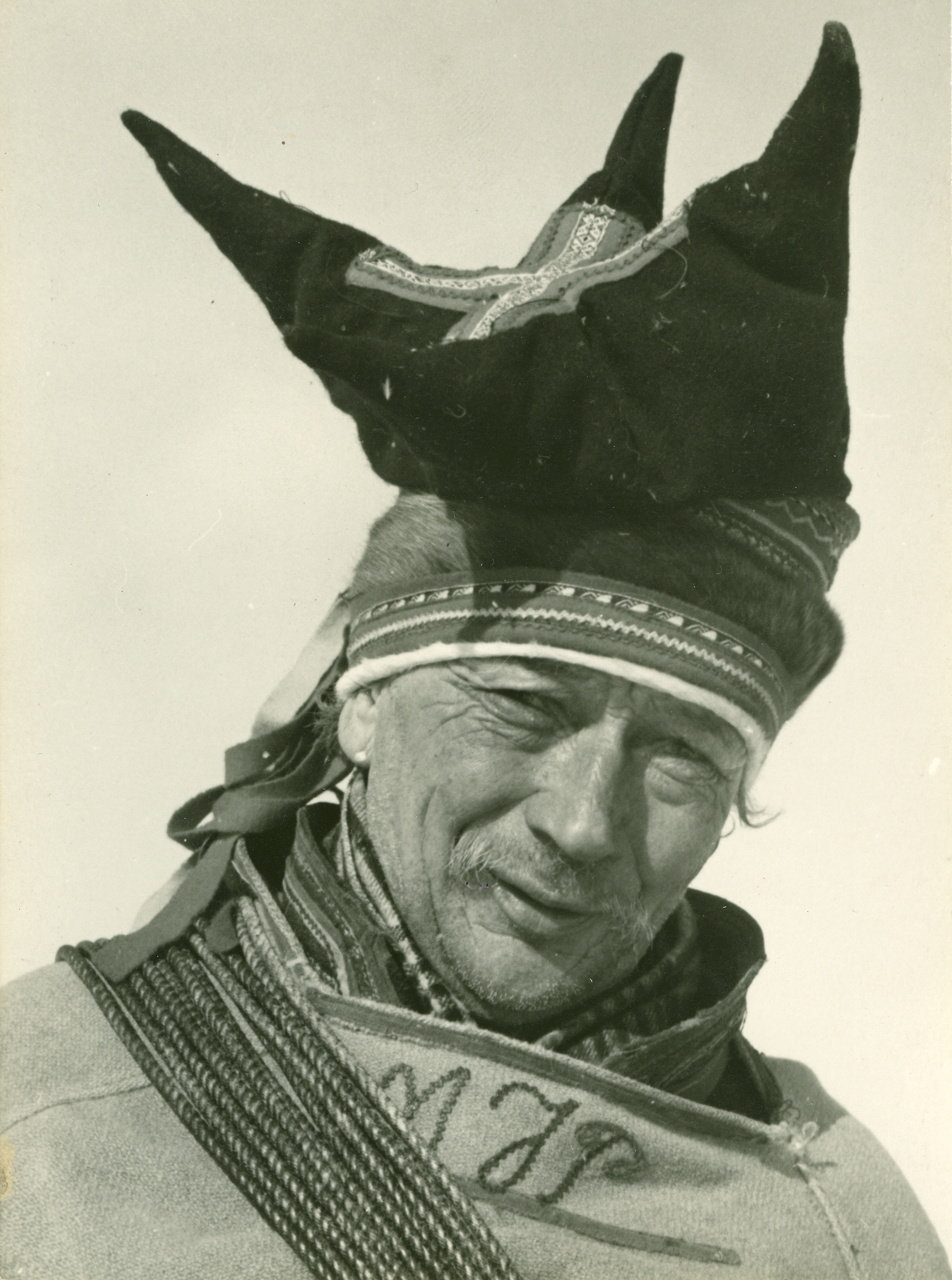 Meyer, Elisabeth Portrait of the postal guide Mattis Johansen Pentha. Gelatin silver print, baryta NMFF.002541-7